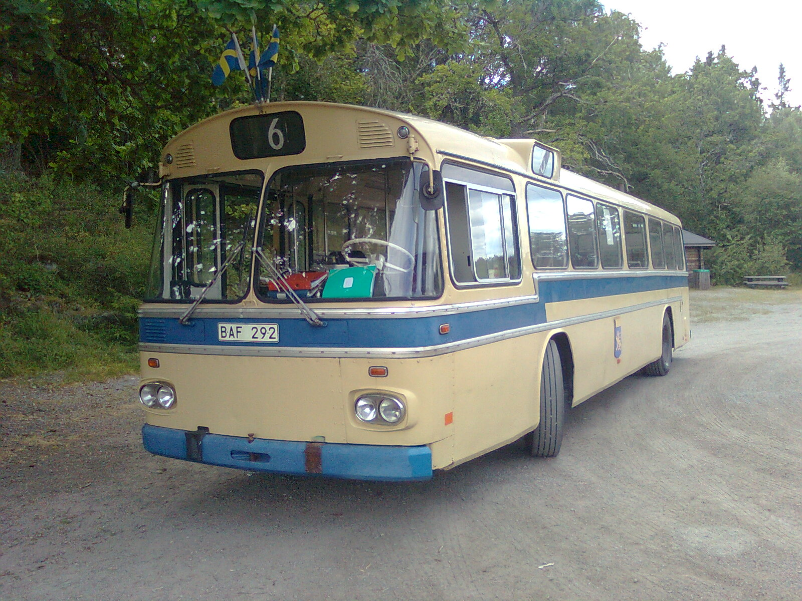 An old Scania bus in Fjällnora outside Uppsala, Sweden.